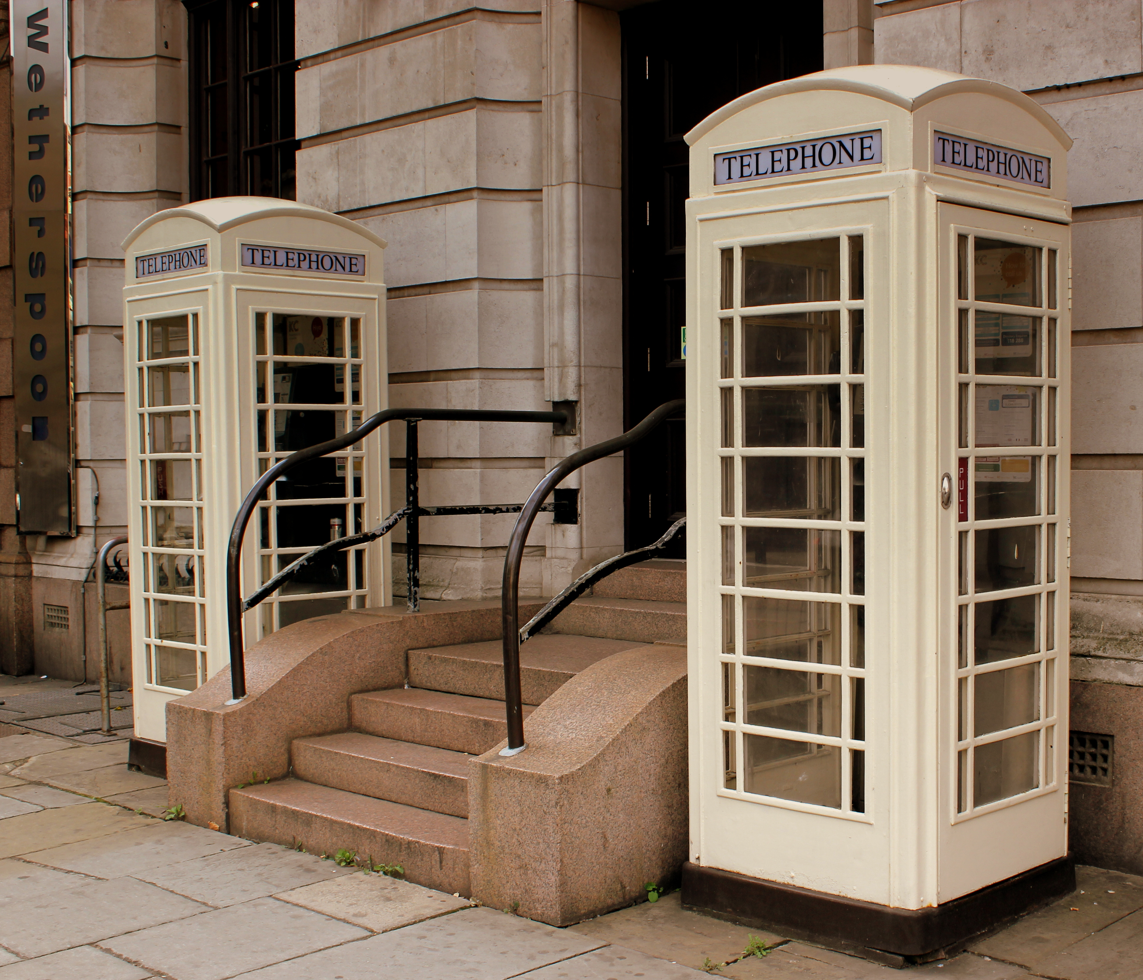 WHITE CLASSIC PHONE BOXES OF THE HULL TELEPHONE COMPANY HULL TOWN CENTRE EAST YORKSHIRE SEP 2013